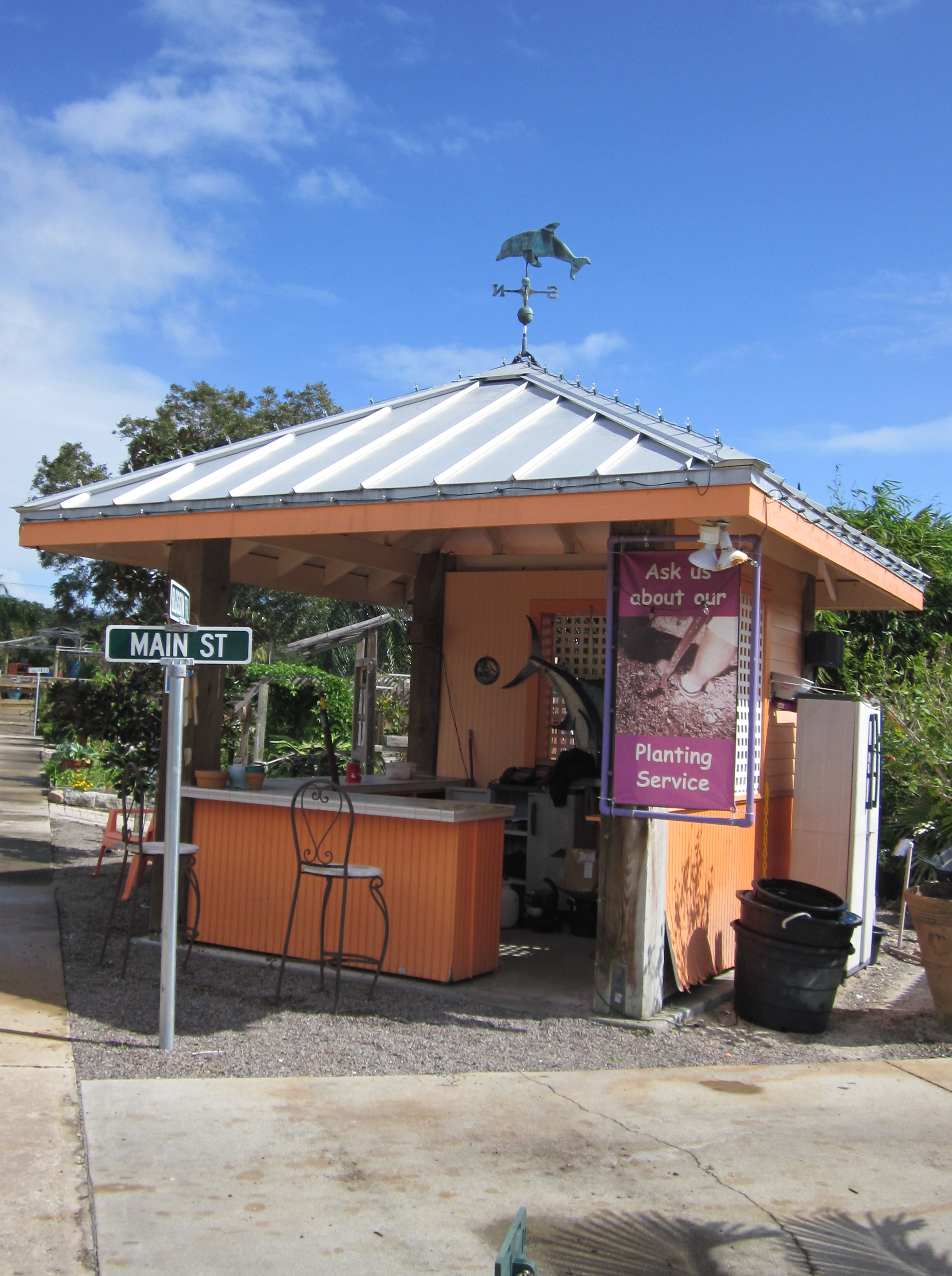 Information Kiosk at Rockledge Gardens in Rockledge Gardens, FL